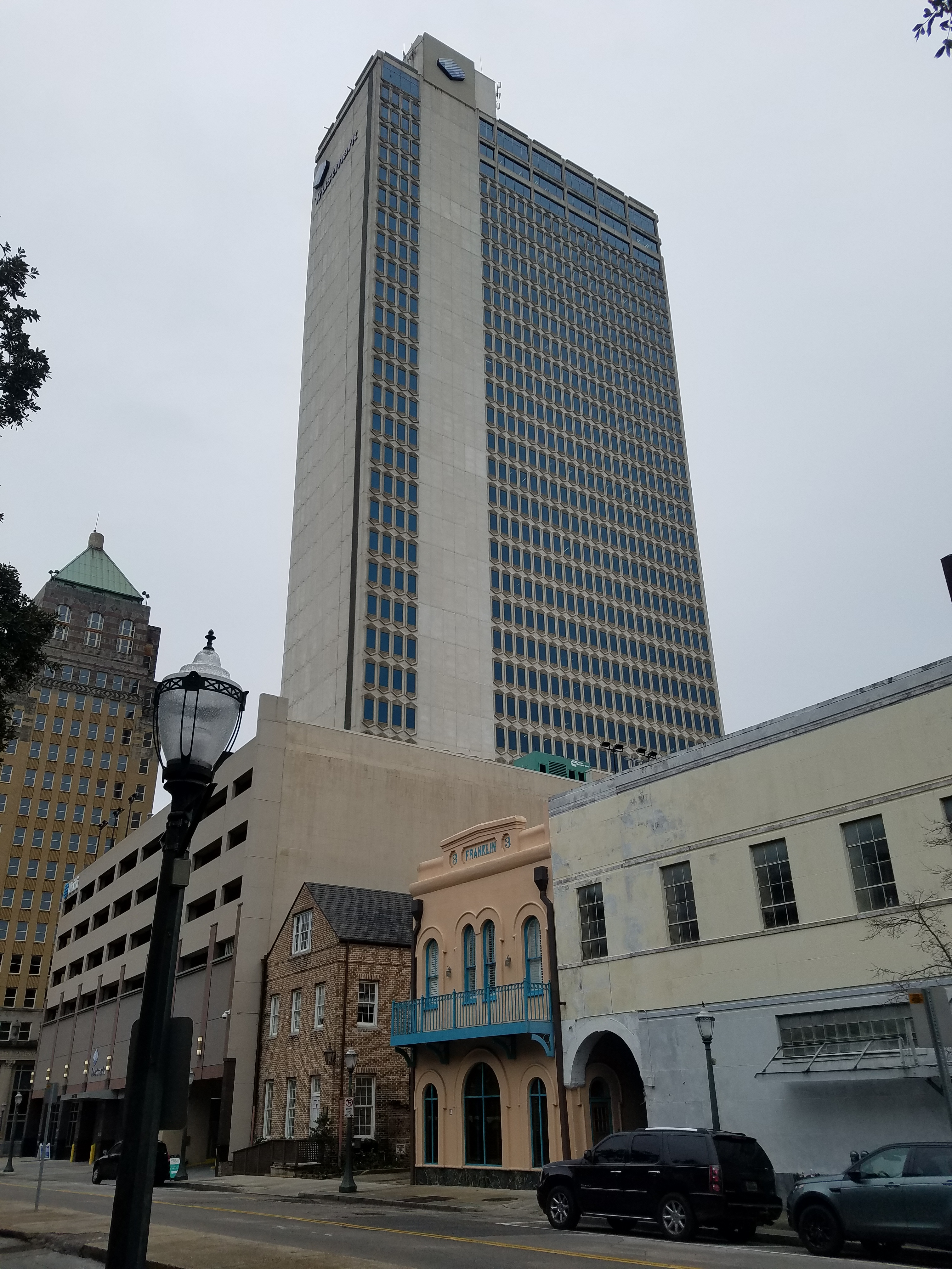 The RSA–BankTrust Building from nearby Bienville Square.